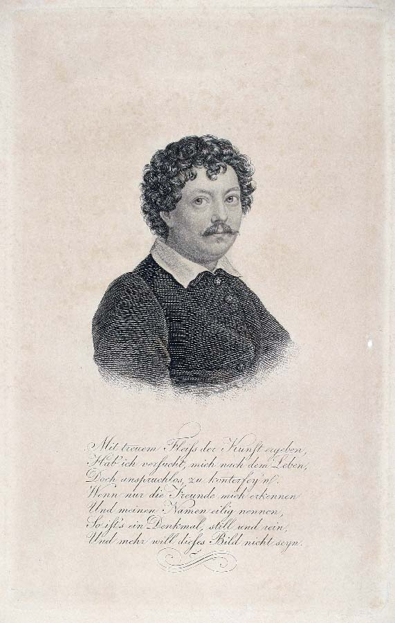 Engraved selfportrait of Friedrich Fleischmann (1791-1834), German painter and engraver